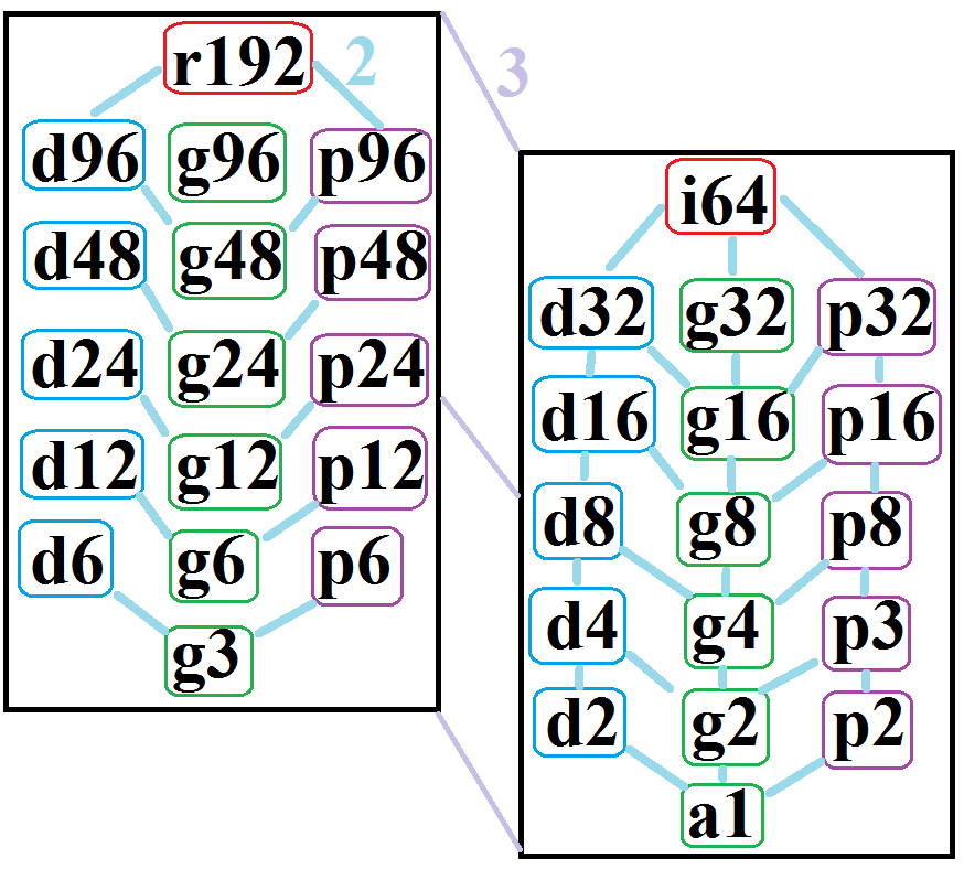 enneacontahexagon symmetries